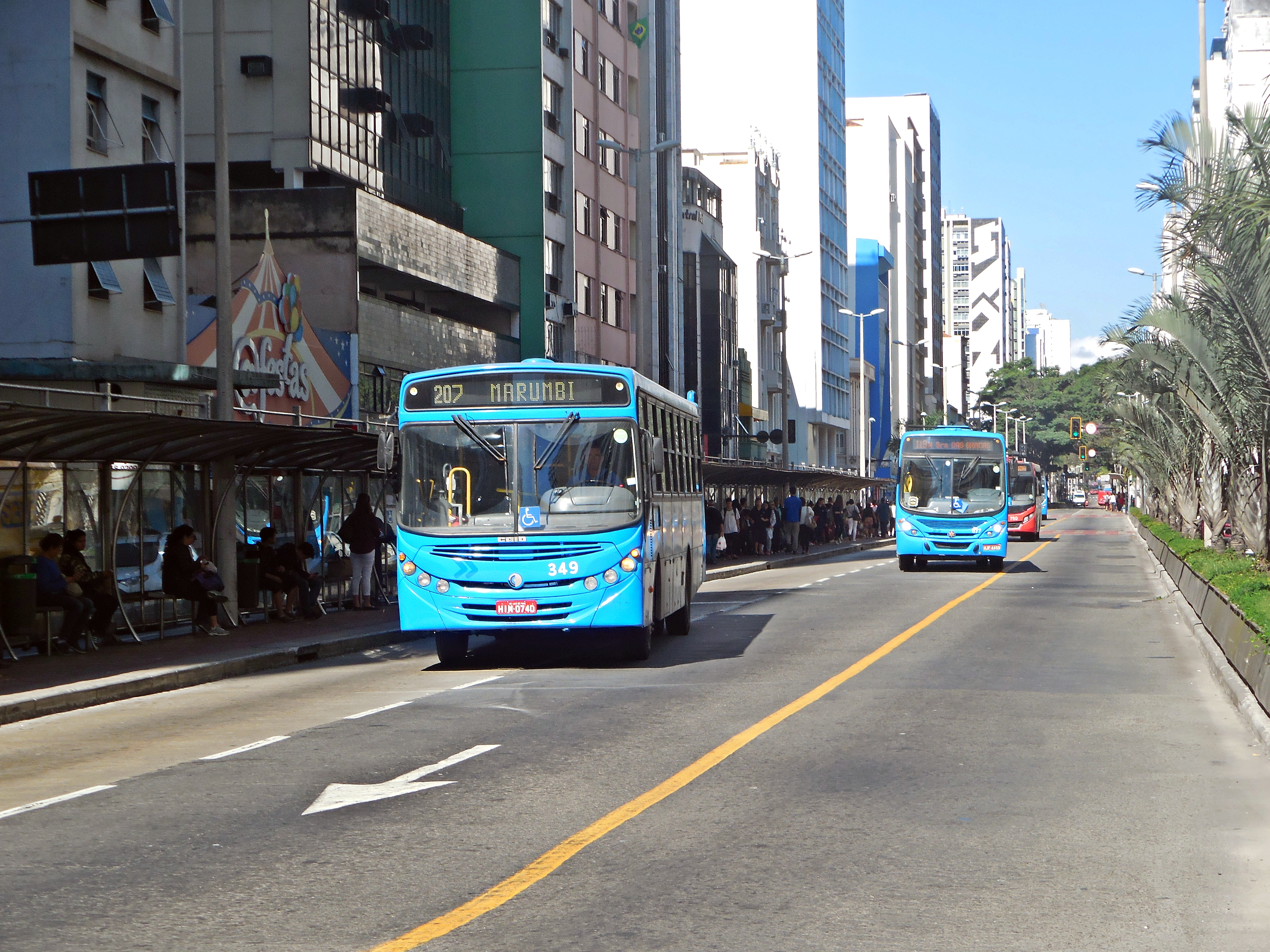 Bus Rapid Transit (BRT) in the Barão do Rio Branco Avenue, in Juiz de Fora, Minas Gerais, Brazil.